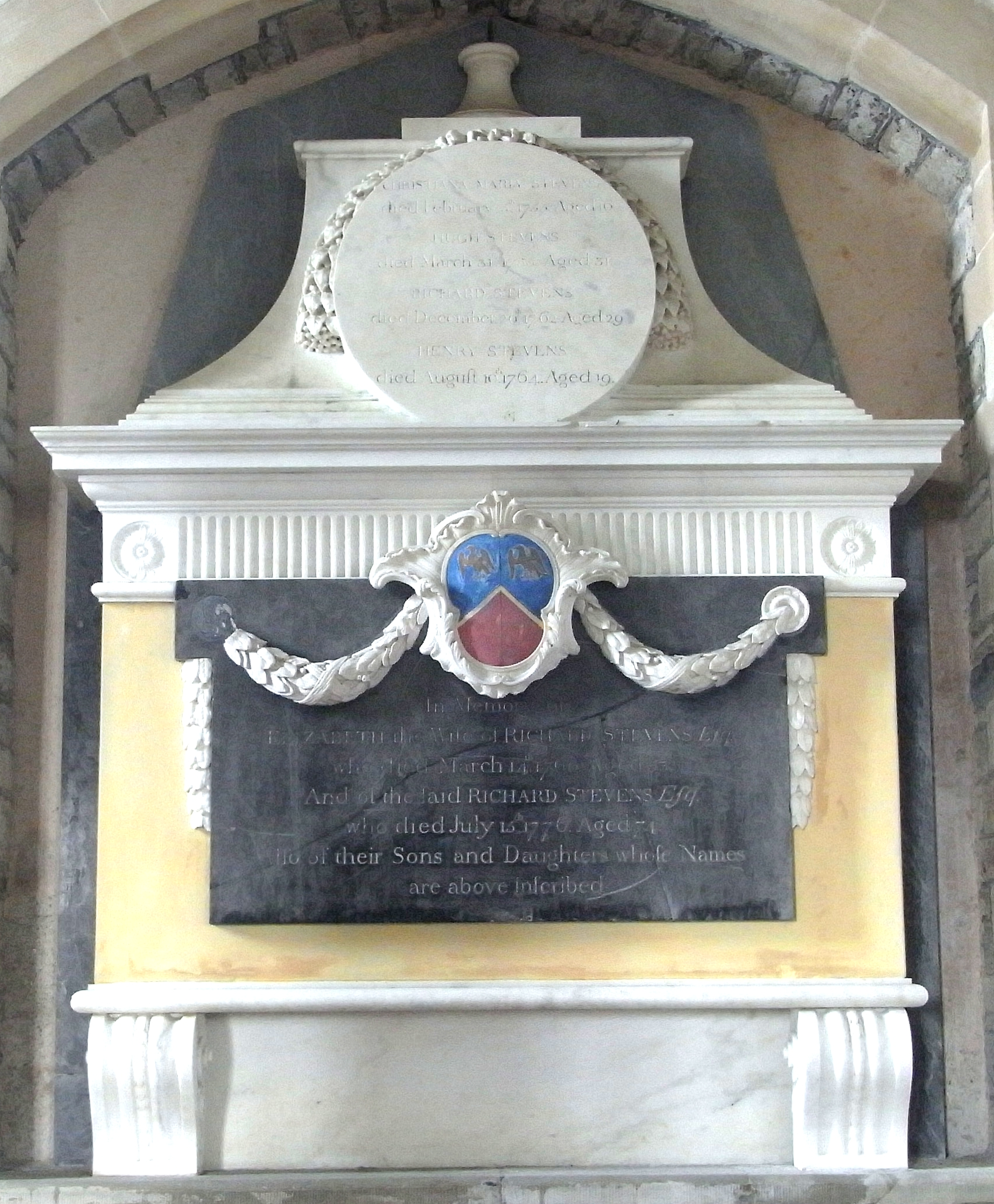 Mural monument to Elizabeth Stevens (1707-1760) and her husband Richard Stevens (1702-1776), of Winscott House, Peters Marland. North wall of nave, St Peter's Church, Peters Marland, Devon.